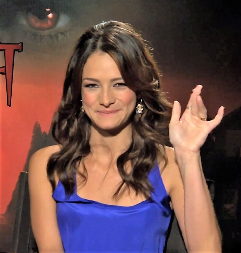 Colombian actress and model Sandra Vergara interviewed by Dulce Osuna about her film Fright Night.